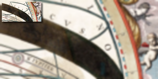 Image resampling using a separable cubic B-spline filter